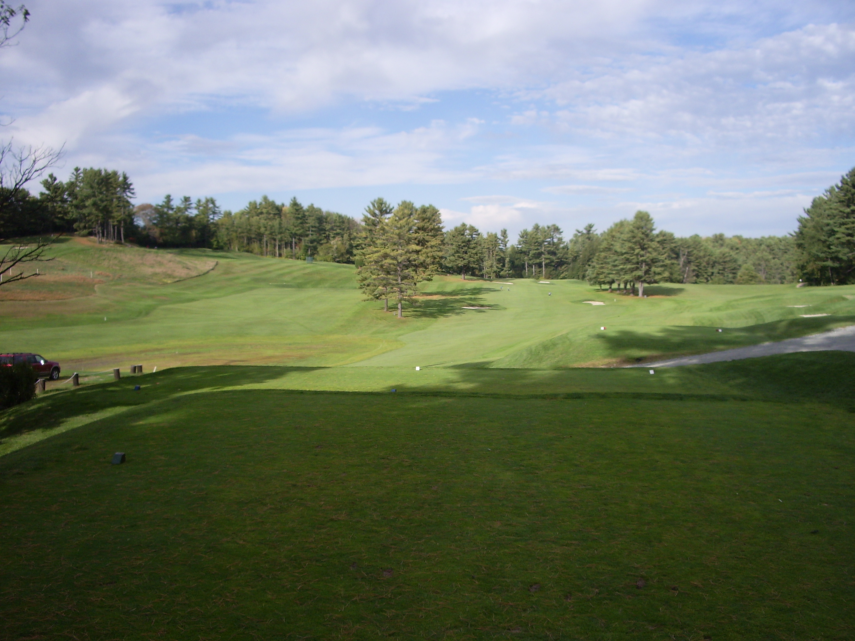 Photograph of the Hanover Country Club at the campus of Dartmouth College in Hanover, New Hampshire.